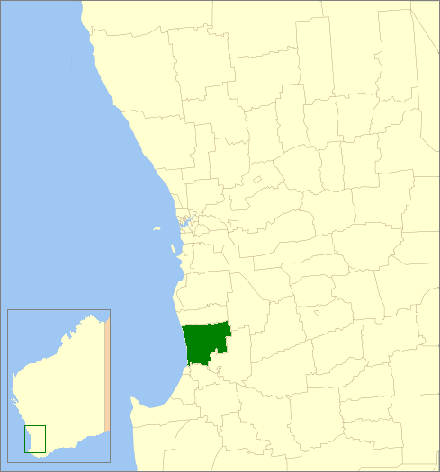 Description=Location of the Local Government Area in Western Australia